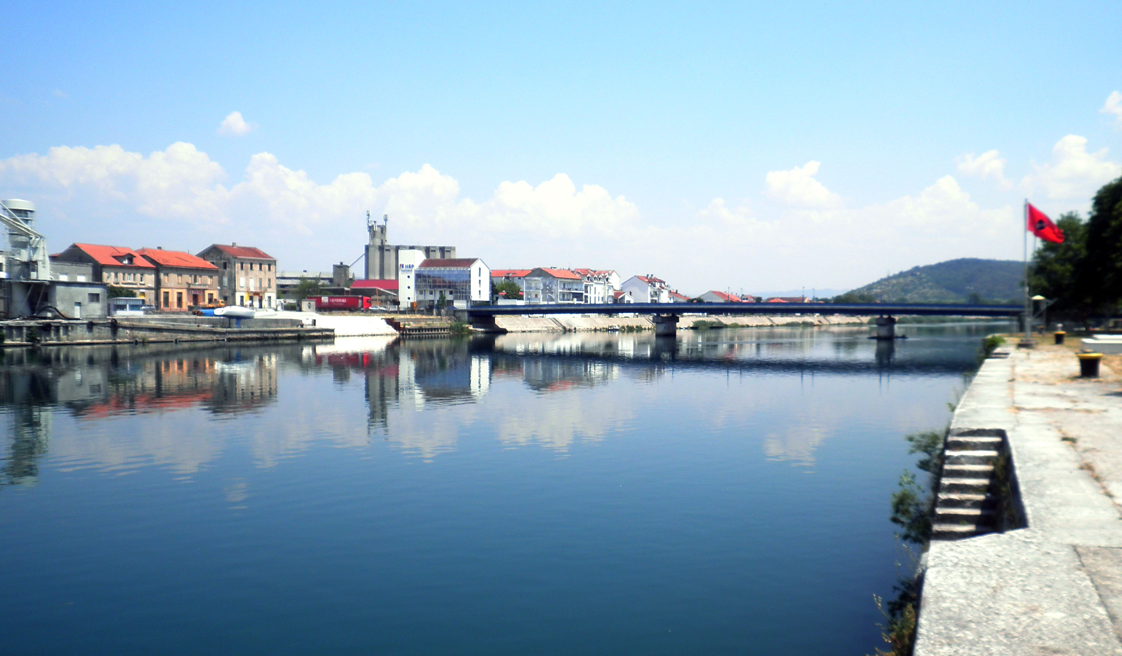 The Neretva river in Metković (Lučki bridge at background)